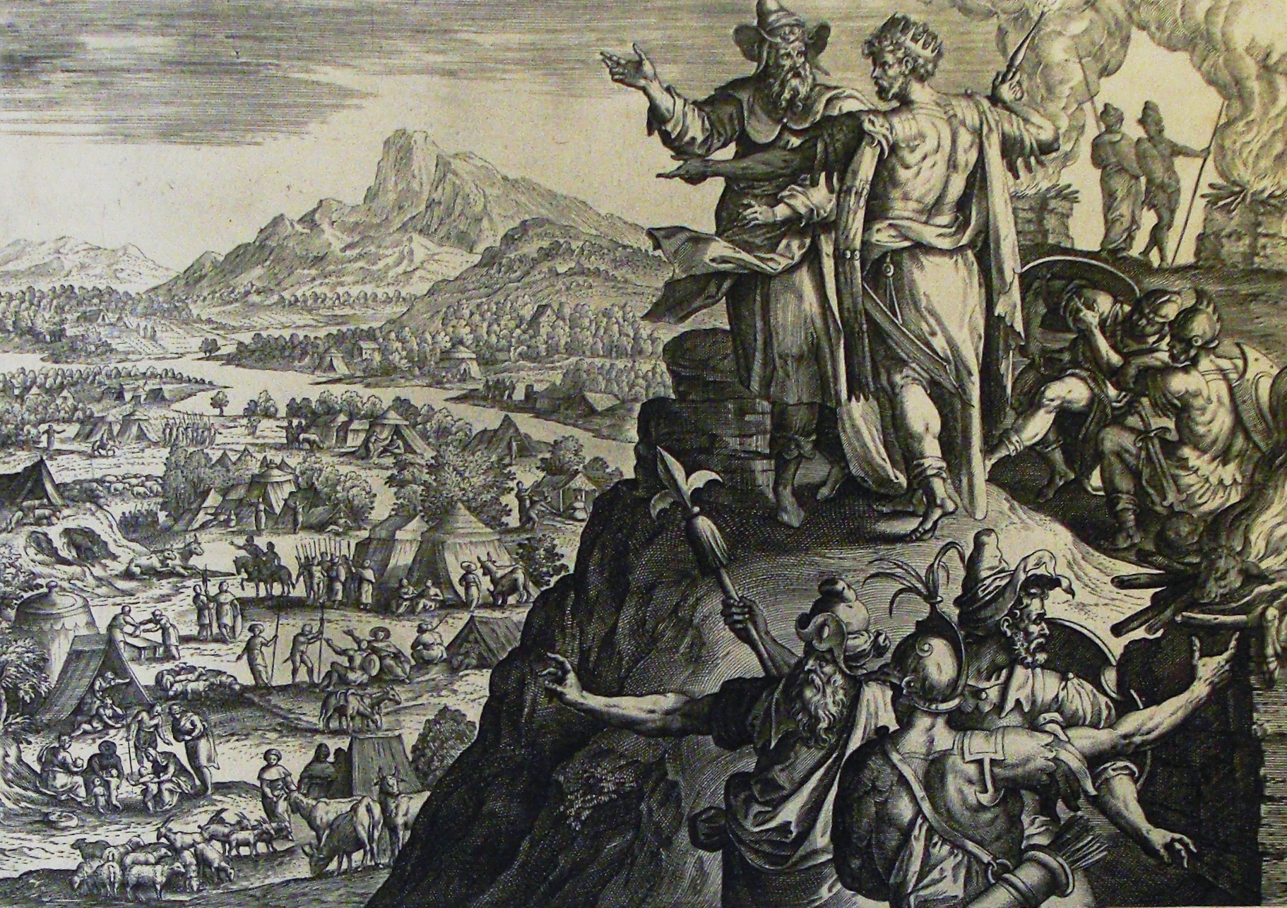 A print from the Phillip Medhurst Collection of Bible illustrations in the possession of Revd. Philip De Vere at St. George’s Court, Kidderminster, England.